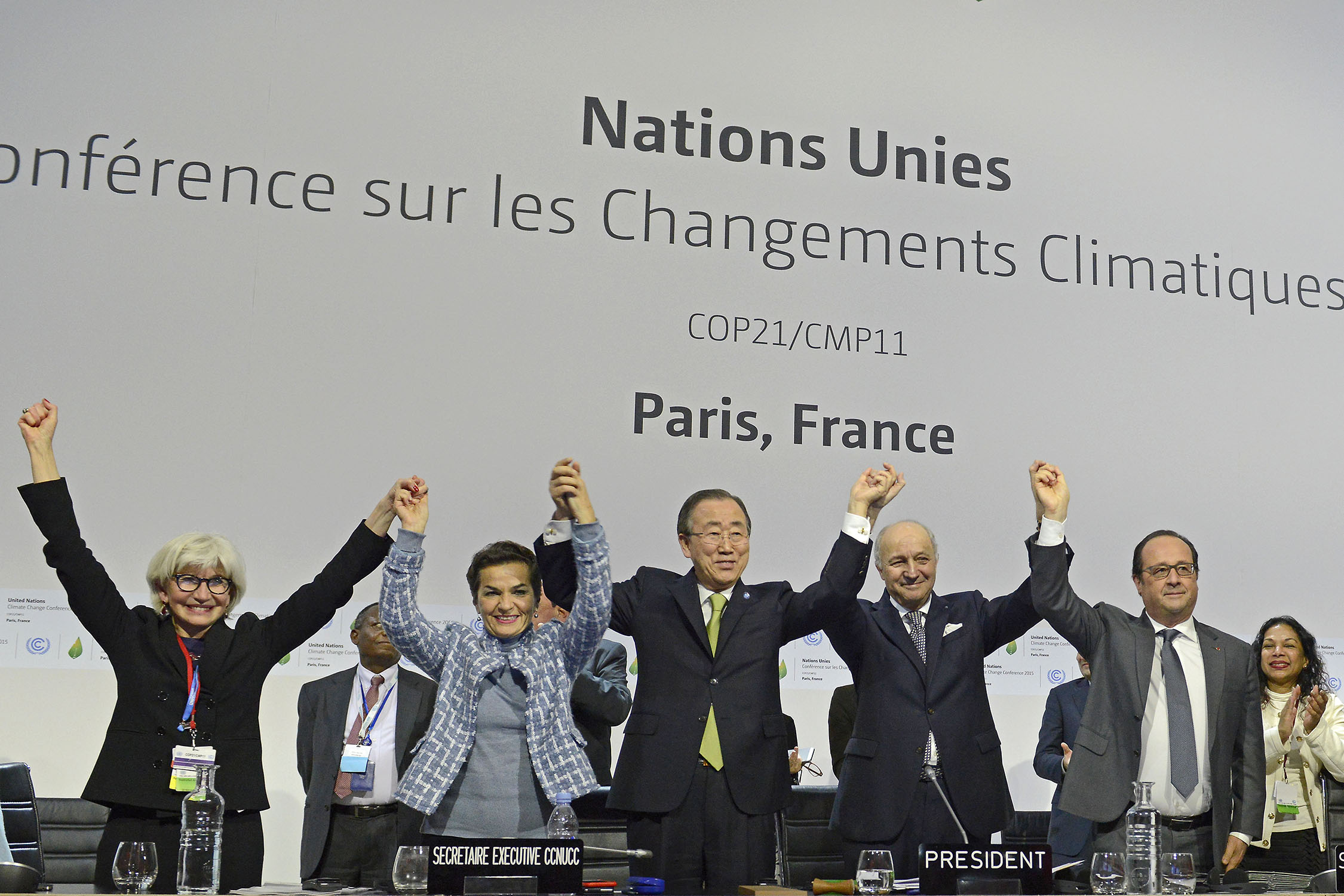 Plenary session of the COP21 for the adoption of the Paris Accord, United Nations Climate Change Conference (Paris, Le Bourget).